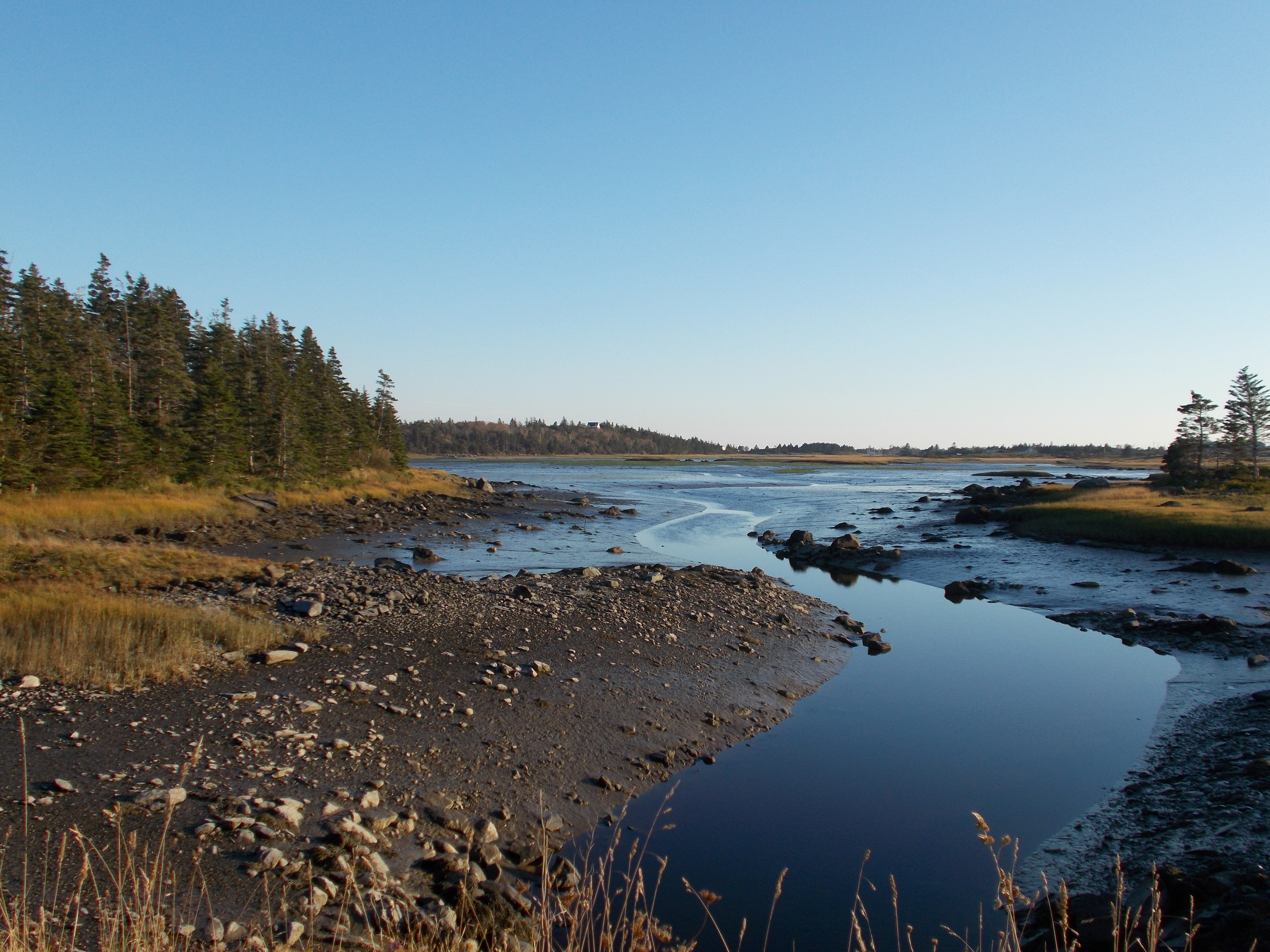 A view of the Salt Pond at the northwest end of Yarmouth harbour at low tide